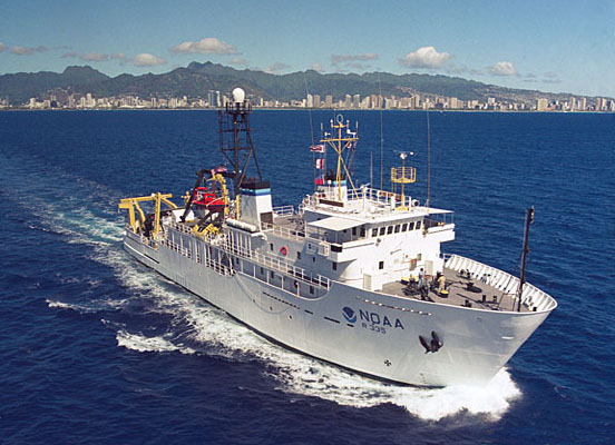 The National Oceanic and Atmospheric Administraton fisheries research ship NOAAS Oscar Elton Sette (R 335)